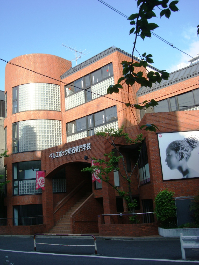 Beruepokku Biyo Senmongakko School, Jingu-mae, Tokyo